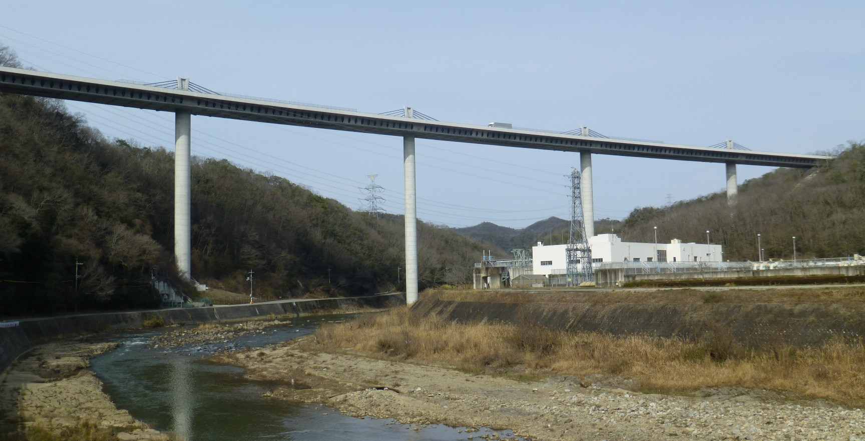 Shin-Meishin Mukogawa bridge crossing Mukogawa (Muko river) on Shin-Meishin Expressway. Photo from south side.